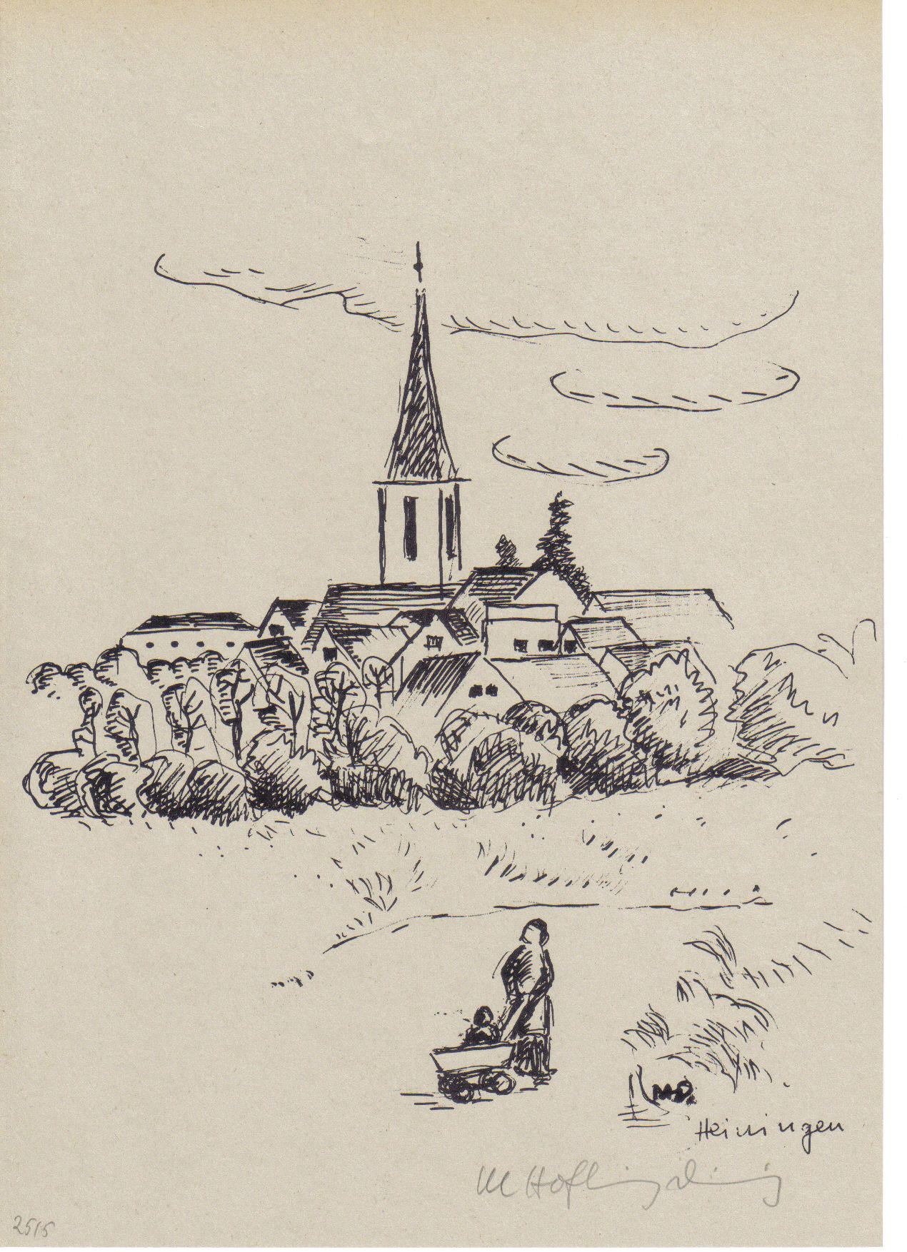 Heiningen, ink drawing, 20 x 30 cm